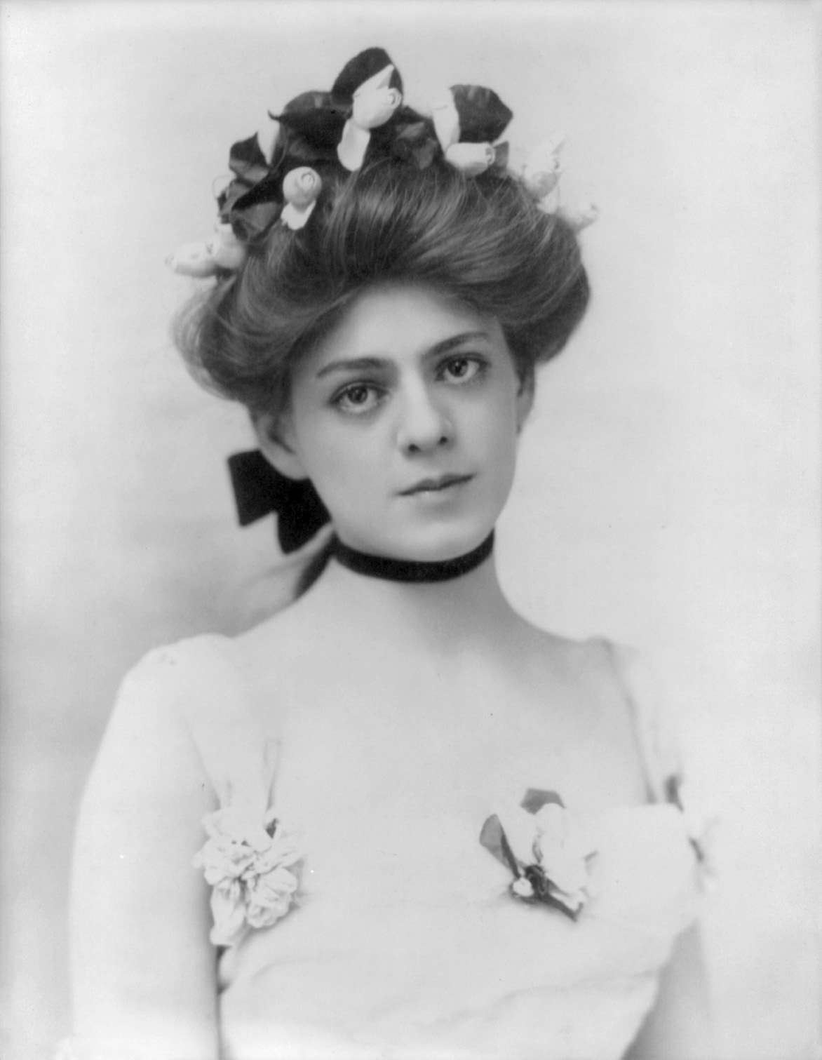 Broadway and Hollywood actress Ethel Barrymore, a member of the famous Barrymore family, head-and-shoulders portrait, facing right.